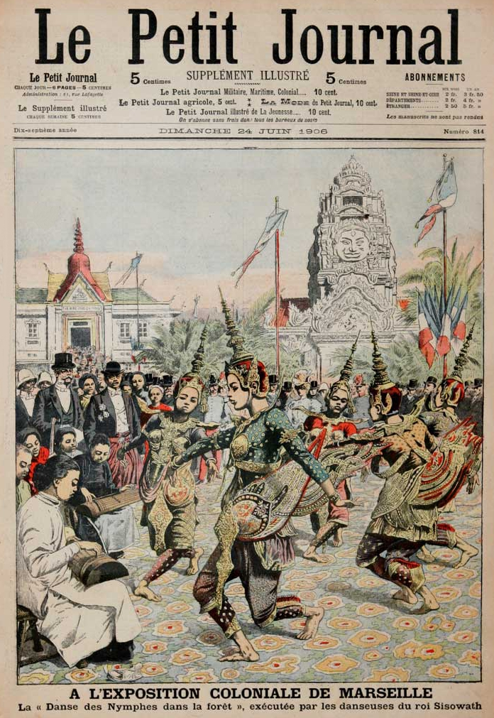 The dancers of King Sisowath at the Marseille Colonial Exposition, 1906.